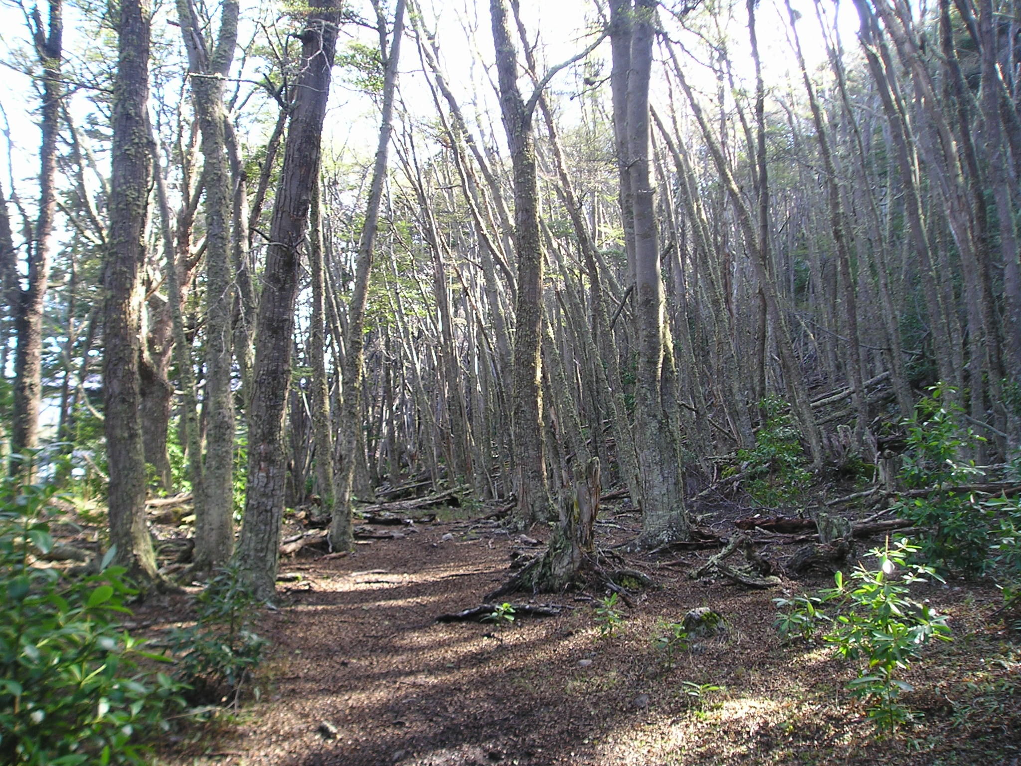 Tierra del Fuego National Park (a few km west of Ushuaia, Argentina) - Senda Costera ("coastal path") passing through a lenga (Nothofagus pumilio) forest.Nothofagus pumilio